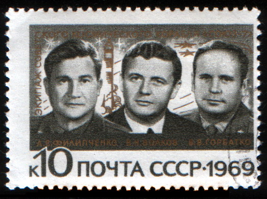 USSR stamp, "Soyuz-7", 1969, 10k.